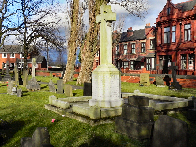 Monument in the parish churchyard of St John the Evangelist, Abram, Greater Manchester, in memory of the Maypole colliery explosion in 1908 that killed 76 men and boys